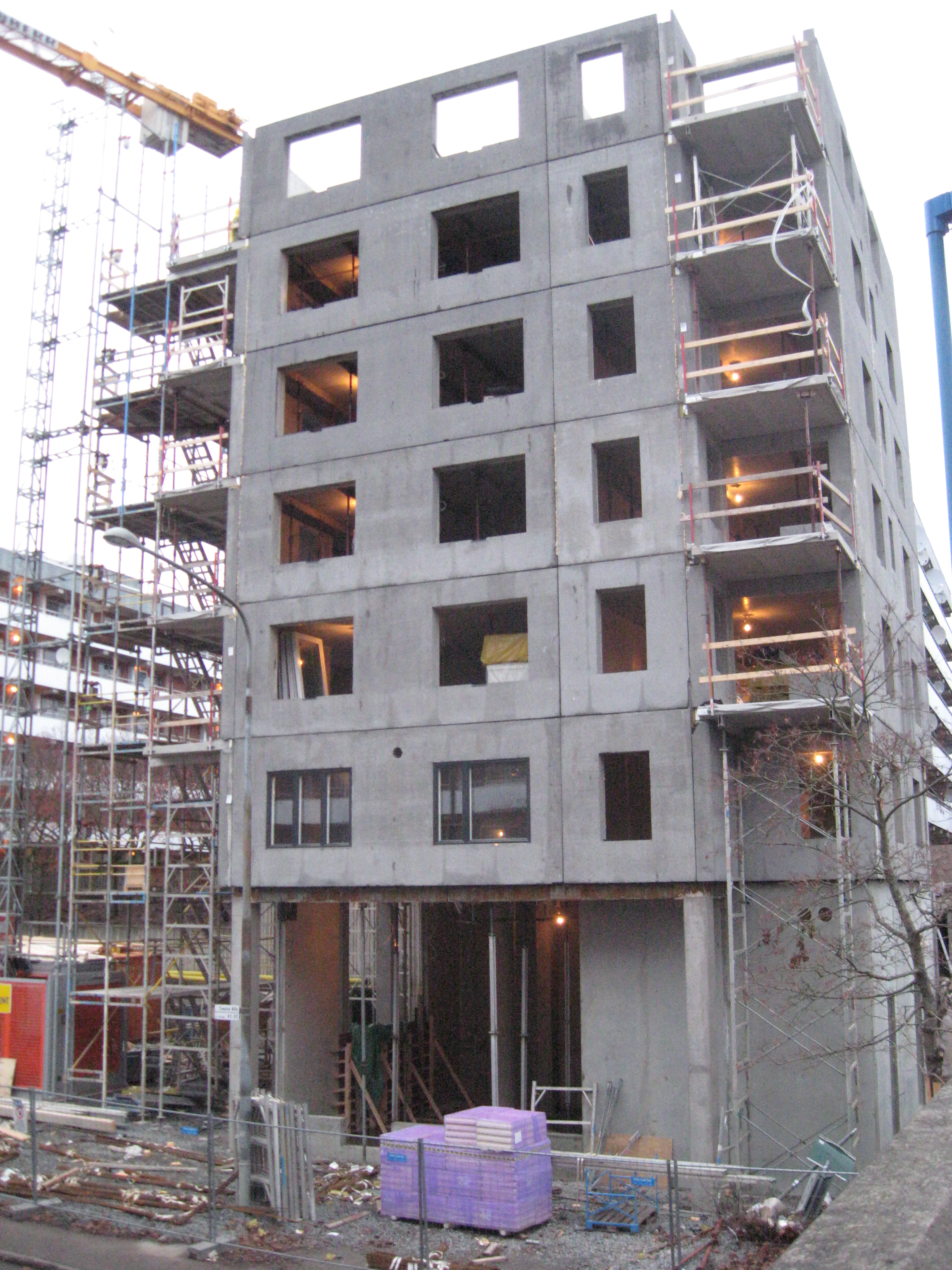 Construction of a building using pre-fabricated concrete elements.